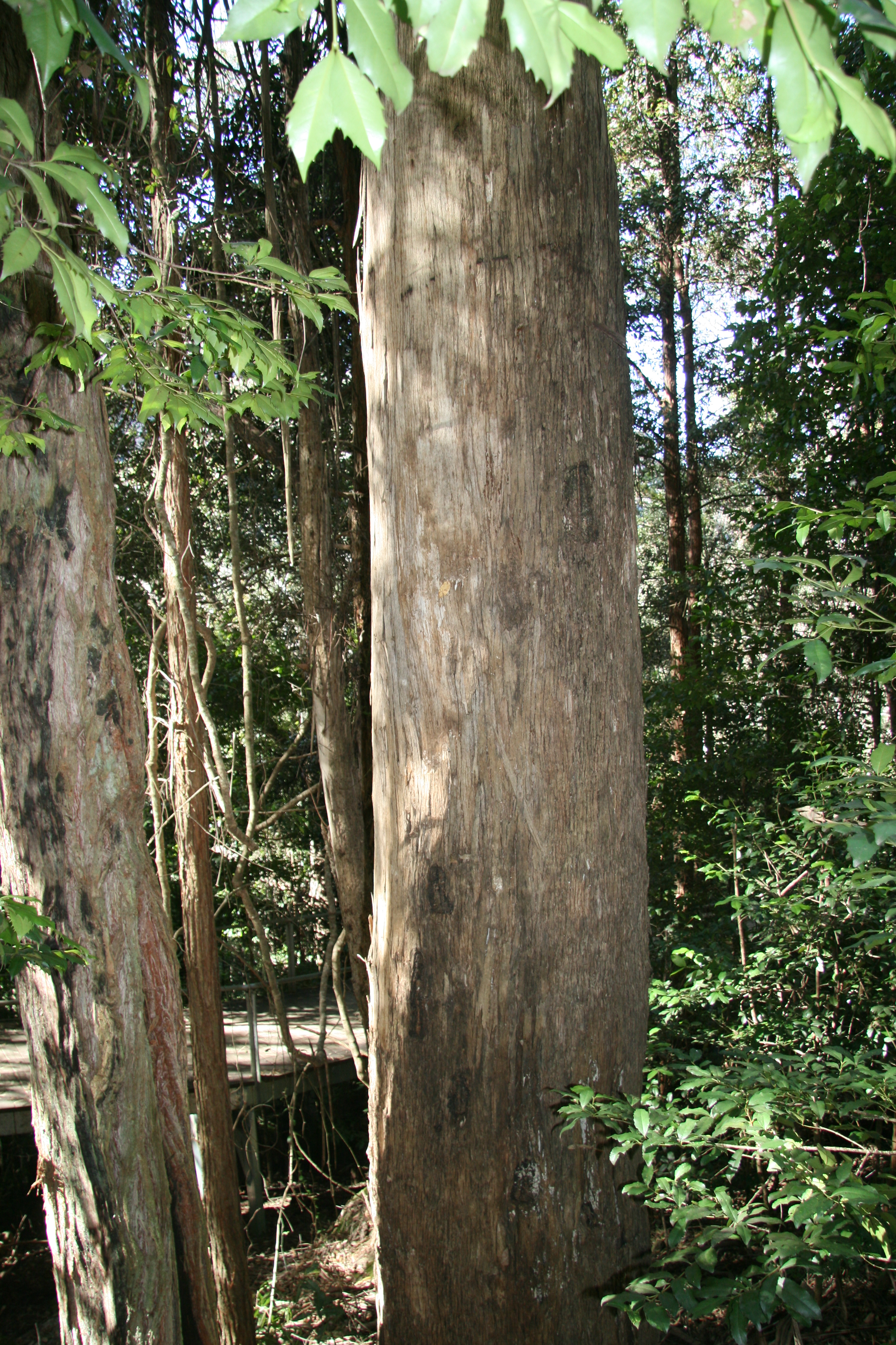 Eucalyptus oreades trunk, boardwalk track near scenic railway, katoomba NSW